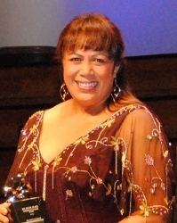 Beatrice Faumuina, at the 2013 Blake Leadership Awards, at Auckland Town Hall, on 5 July 2013